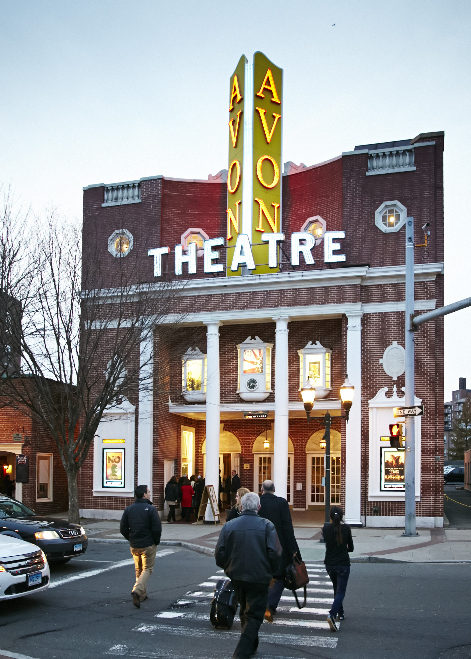 The Avon Theatre in Stamford, Connecticut in April 2013.